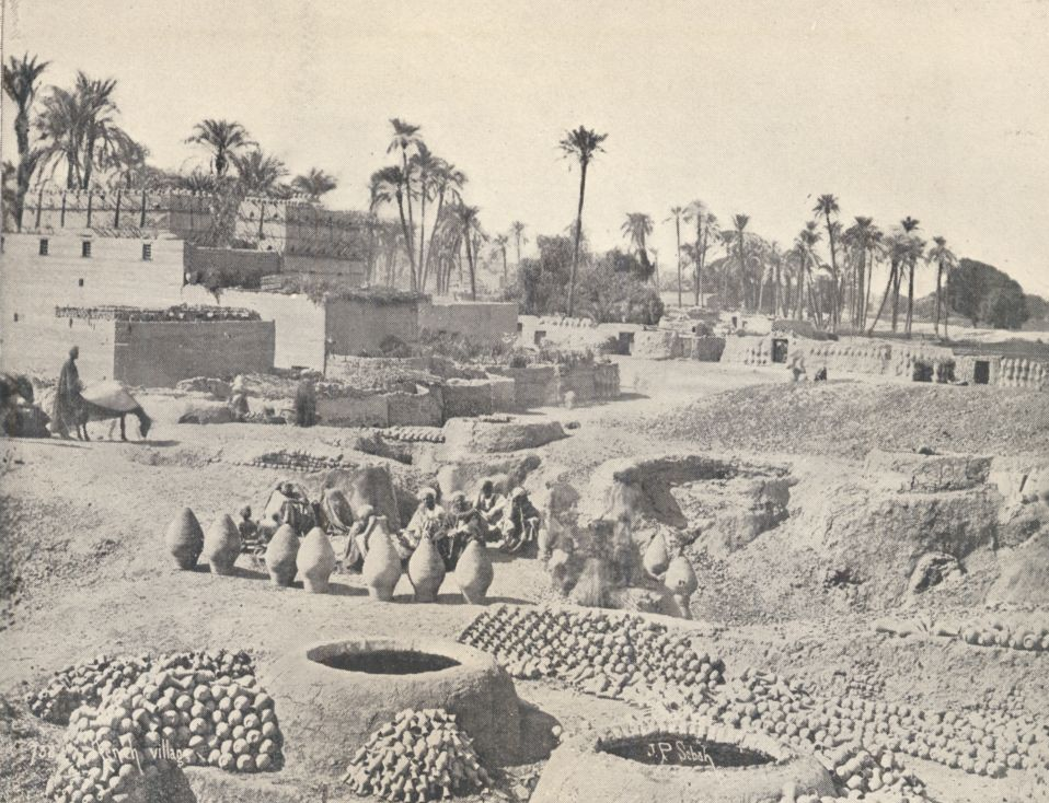 Small village with many vessels shown in their creation stages. Black- and- white photograph.